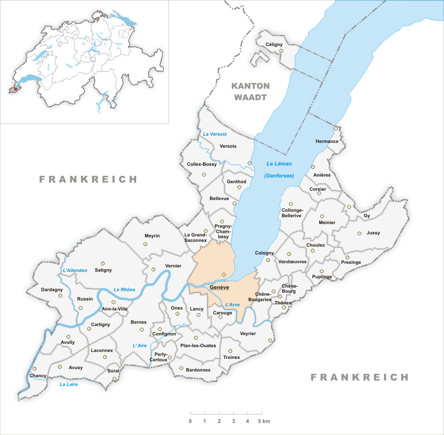 Municipality Genève